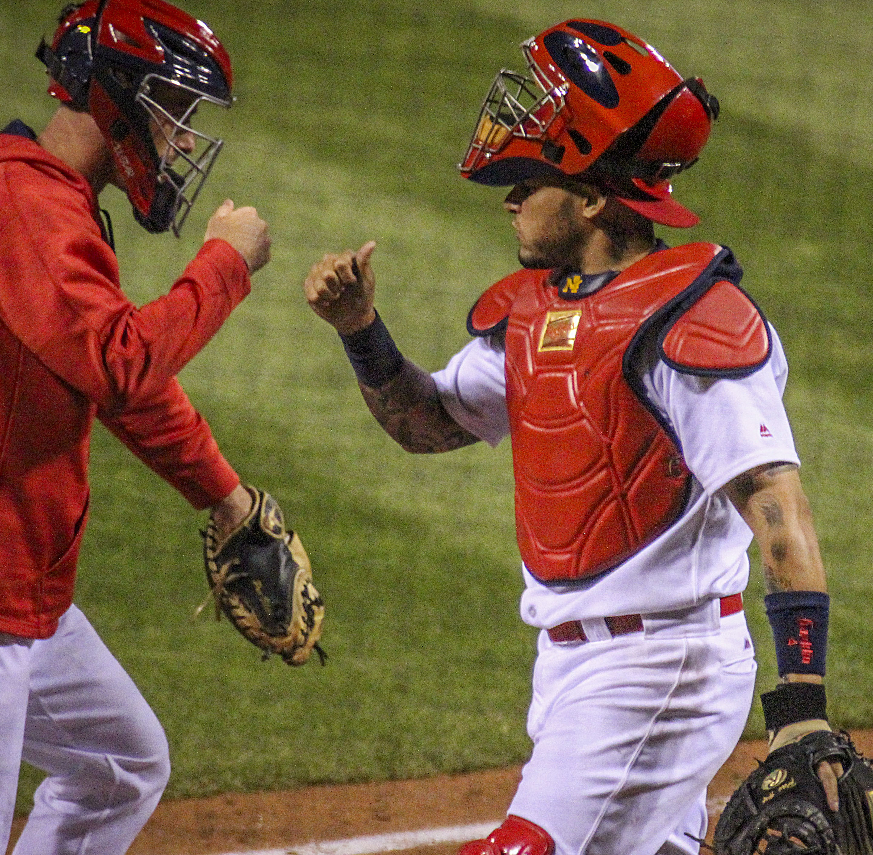 Cardinals catcher Yadi Molina